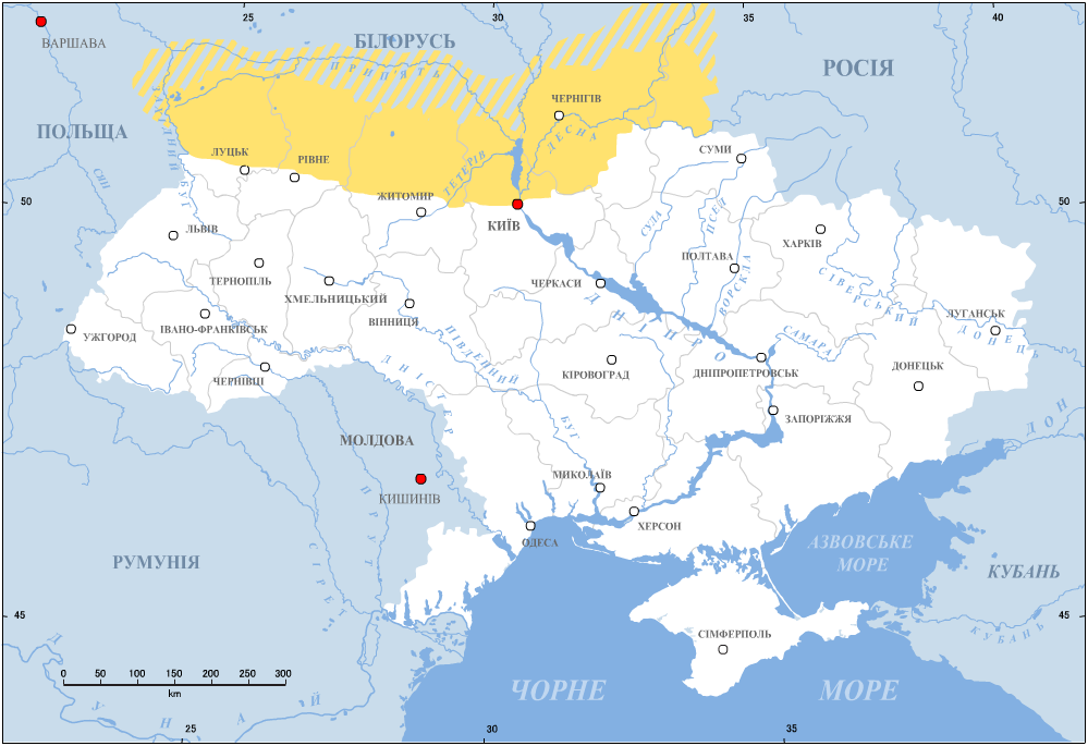 Polesia (marked in yellow) on a map of Ukraine